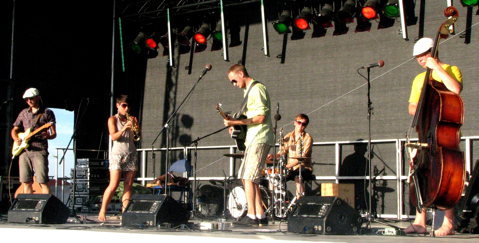 Paabel performing in Tallinn Maritime Days